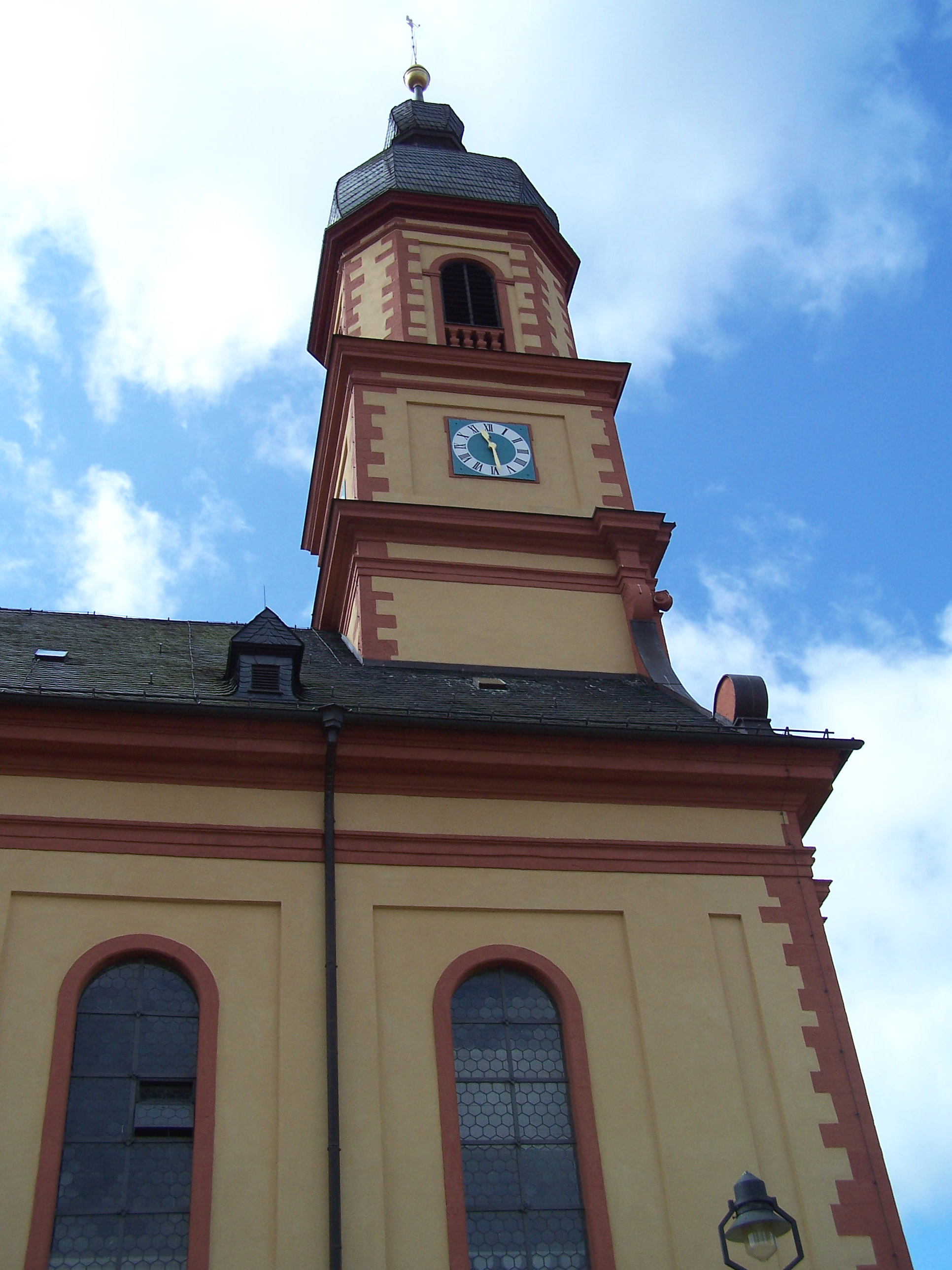 Tower of baroque catholic church St. John the Baptist in Mönchberg, July 2012